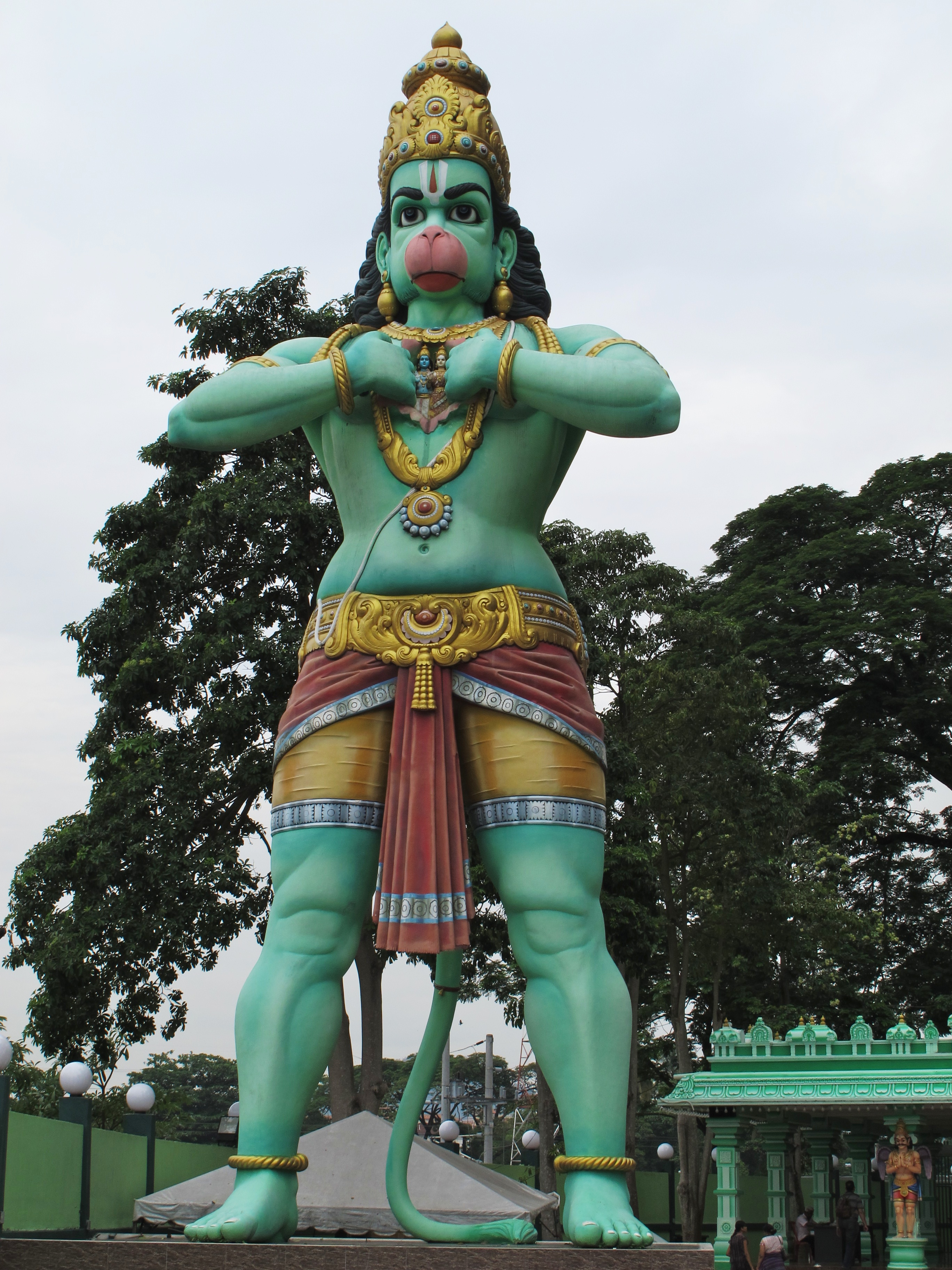 Hinduism Idols, Deities in Malaysia